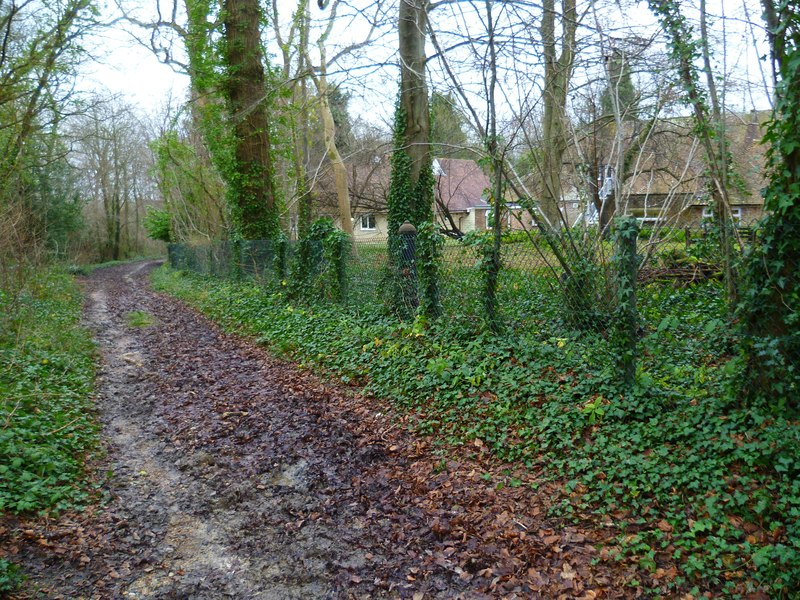 The bridleway reaches the Arundel & District Community Hospital (2)